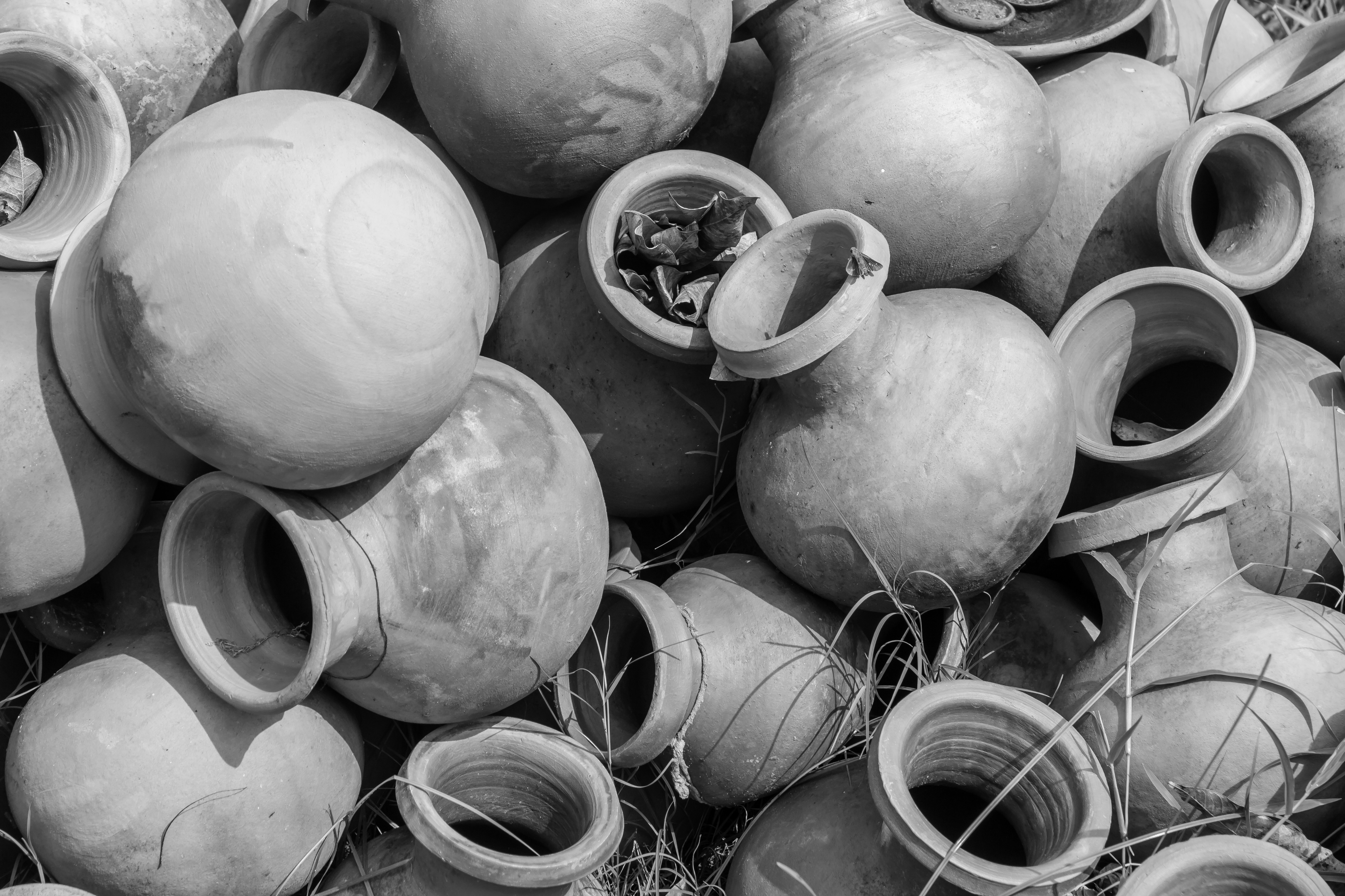 Clay pots (ghaila) are used as a part of festival, like putting oil-lamp (diya and bati) on their heads.